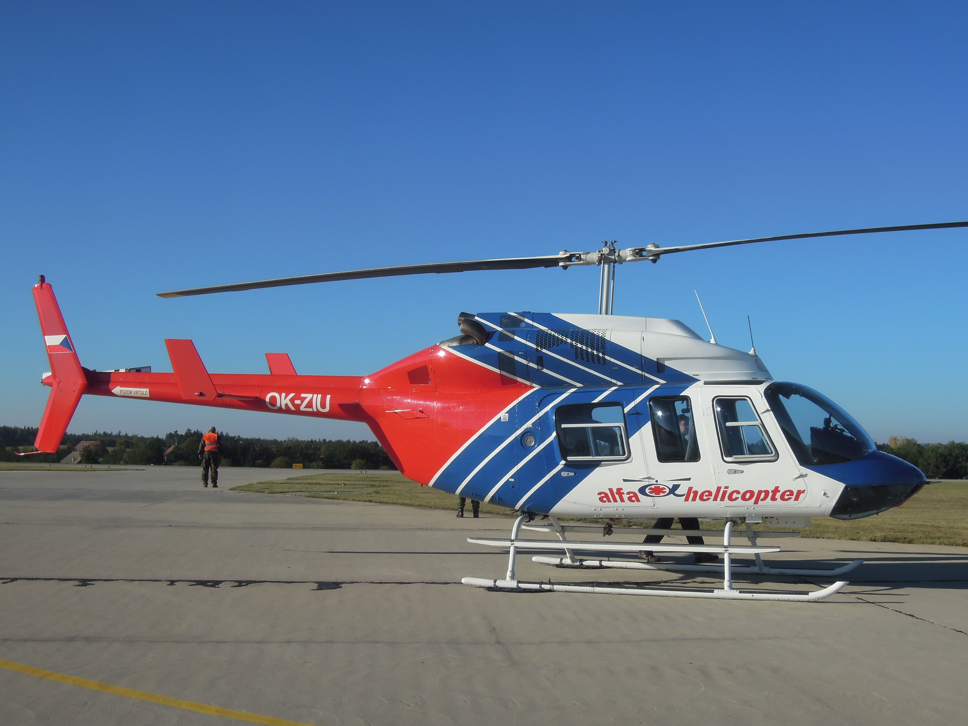 Bell 206L-4T helicopter of Alfa-Helicopter company at Náměšť nad Oslavou airport base, Náměšť nad Oslavou, Vysočina Region, Czech Republic